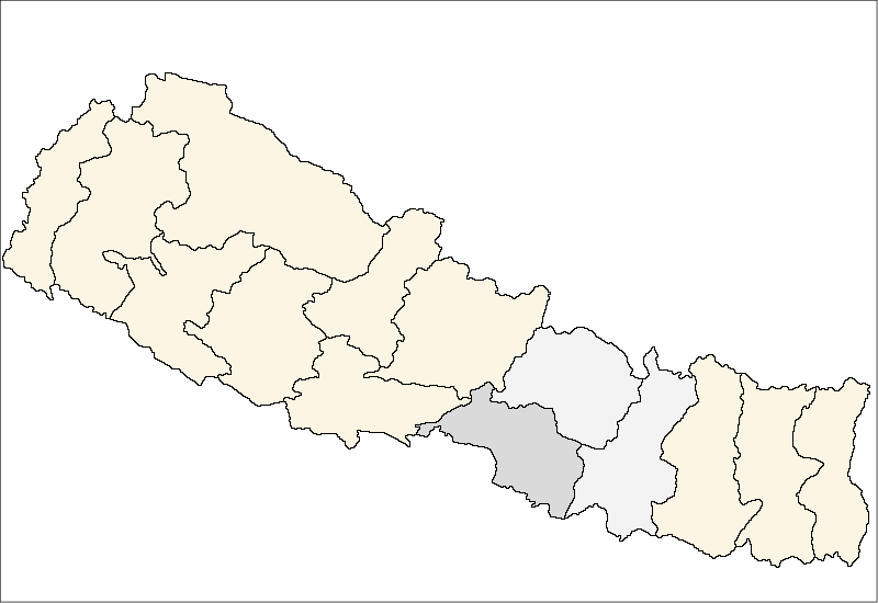 FrenchCarte de localisation de lazone de Narayani(wp-FR),au Népal (wp-FR).EnglishLocation map ofNarayani Zone(wp-EN),in Nepal (wp-EN).